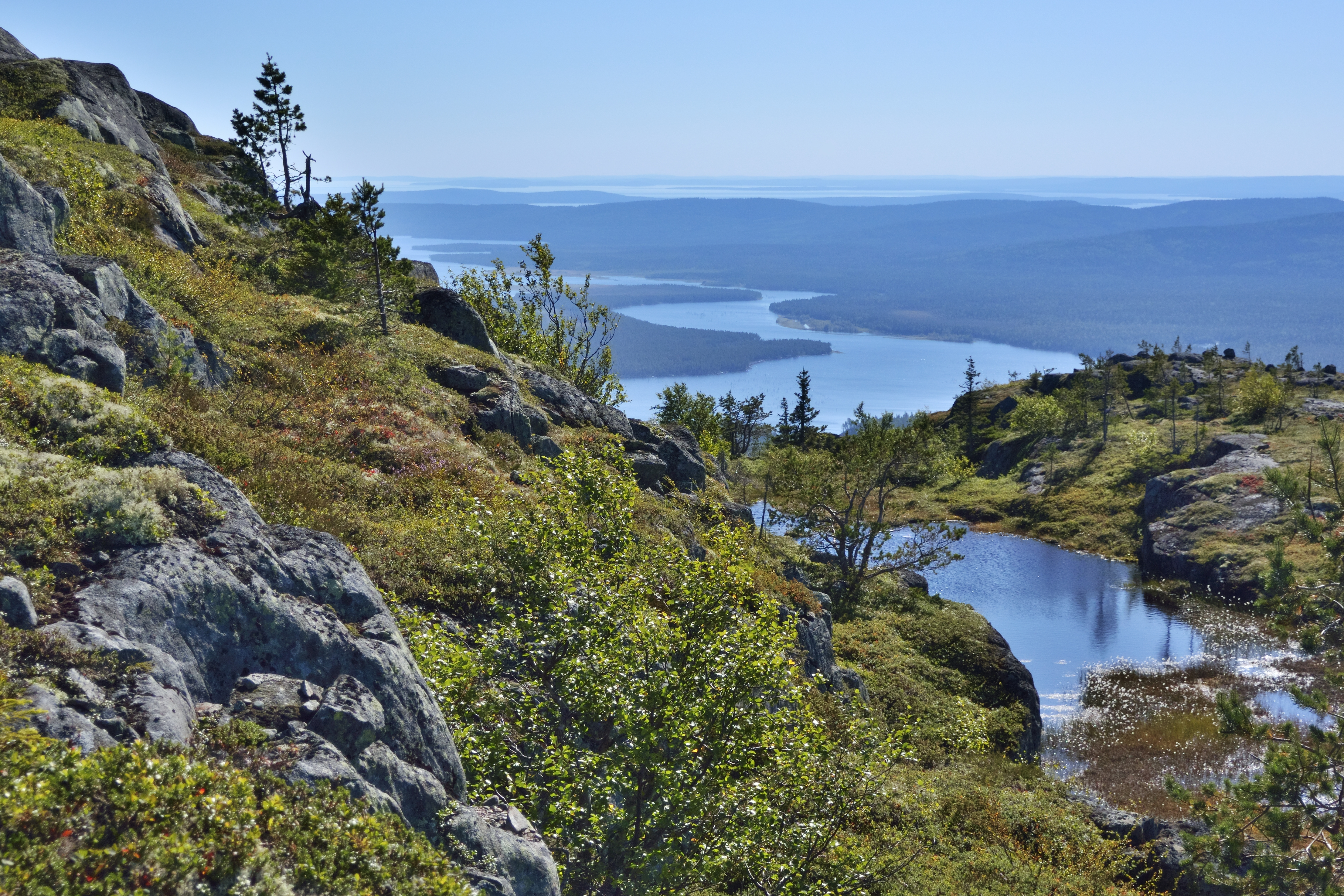 View from the Kivakka Mountain onto the Oulankajoki River flowing into the Pyaozero Lake, Paanajärvi National Park, Republic of Karelia, Russia This image is related to the protected area of Russia number 1000069